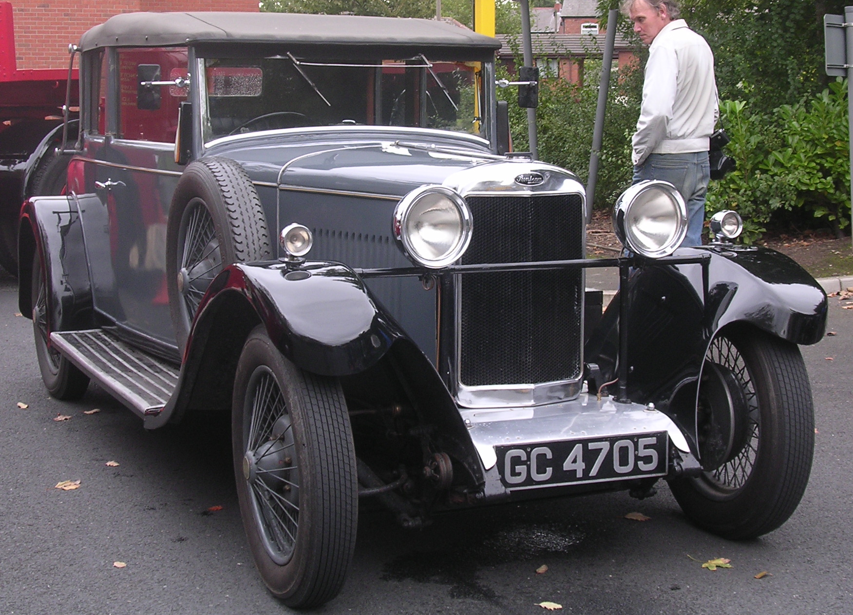 Sunbeam 1930 Sunbeam 16.9 Four Seat Drophead Coupe by James Young Reg Number: GC 4705 Chassis Number: S243L Engine Number: S784K Cc: 2116 Body Colour: Black/Grey Trim Colour: Blue Source of information